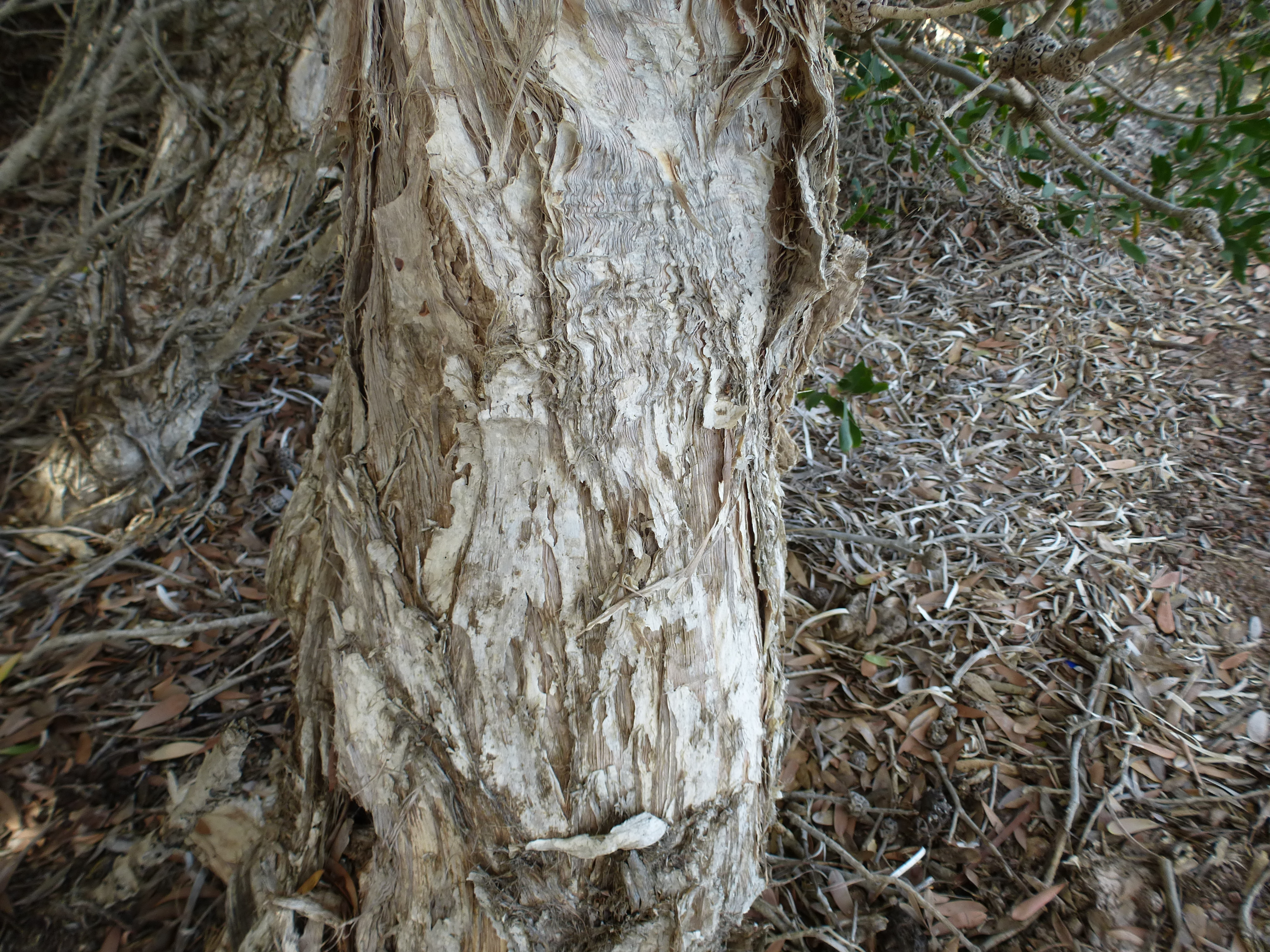 Melaleuca globifera at Cape le Grande